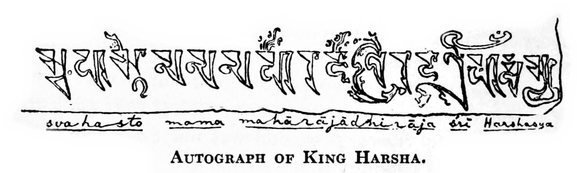 Autograph of King Harsha